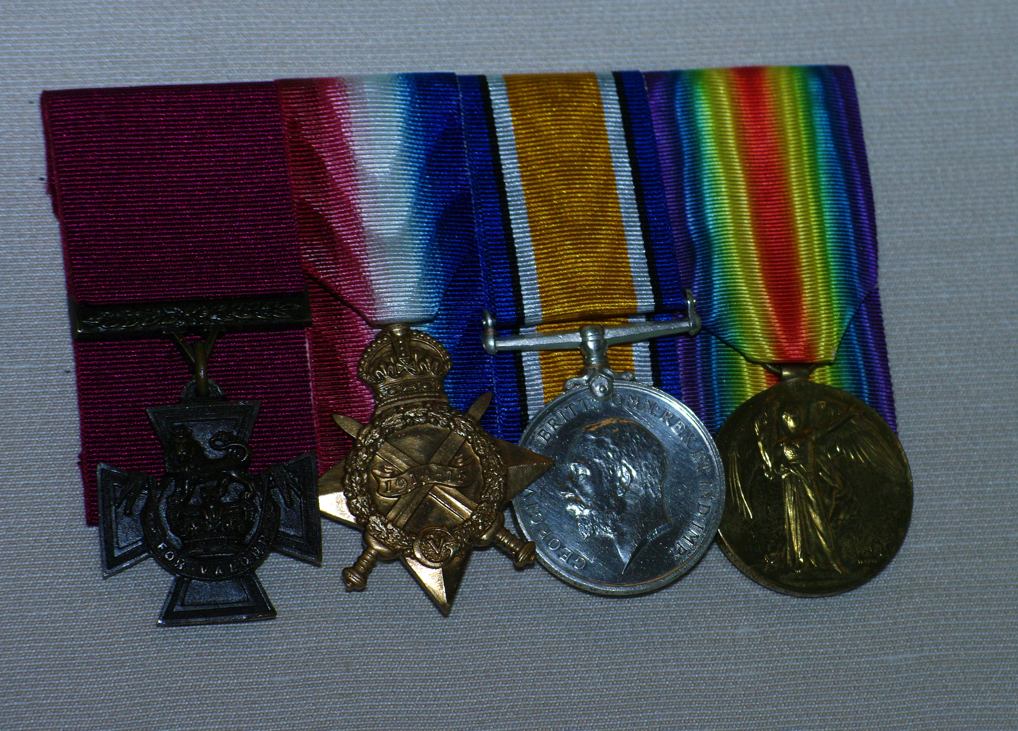 Hugo Vivian Throssell VC, service medals on display in the Australian War Memorial Victoria Cross, 1914-15 Medal, British War medal, Victory Medal